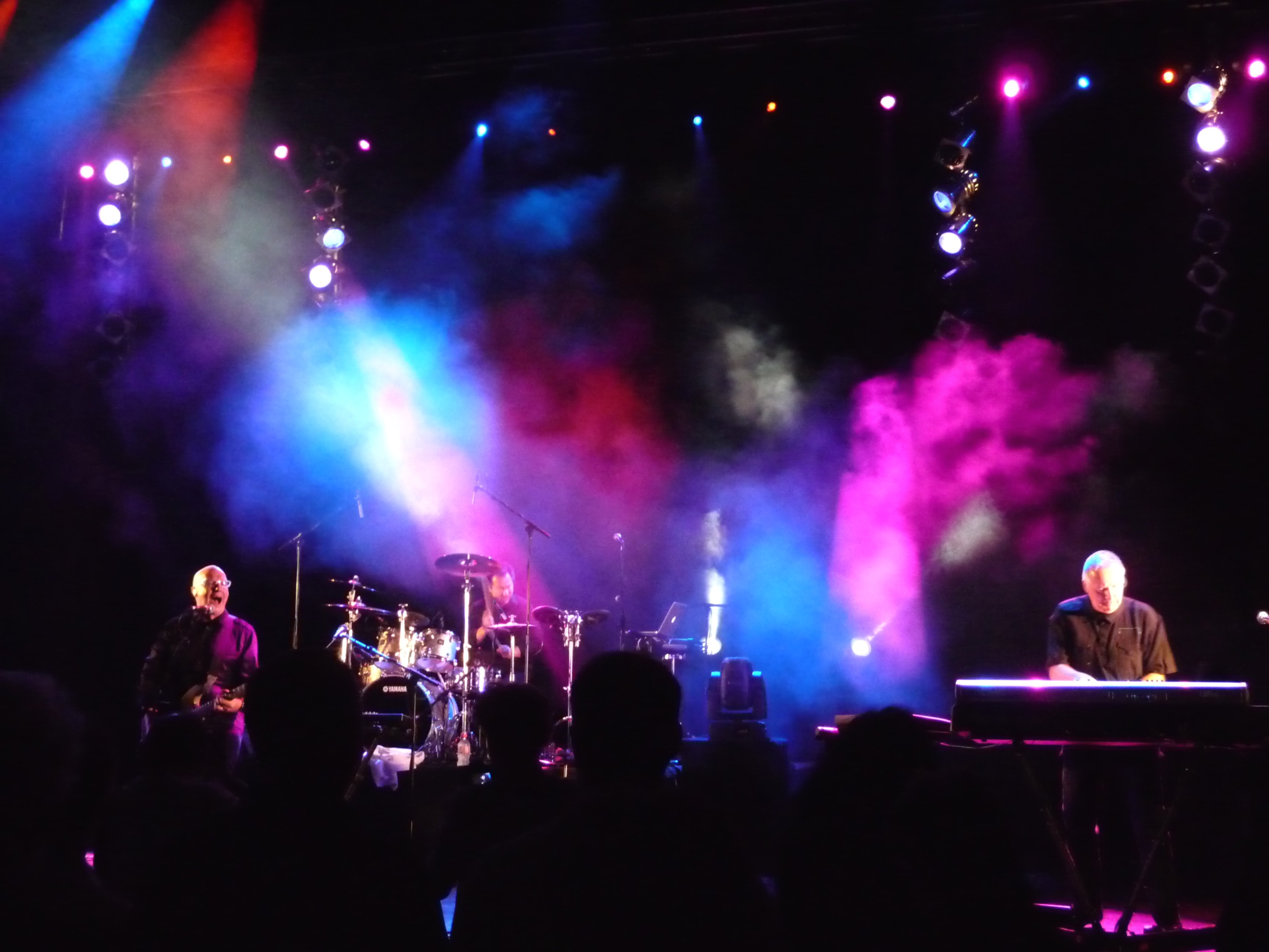 Ultravox playing „Return to Eden“ tour concert at „Theater am Marientor“, Duisburg, Germany